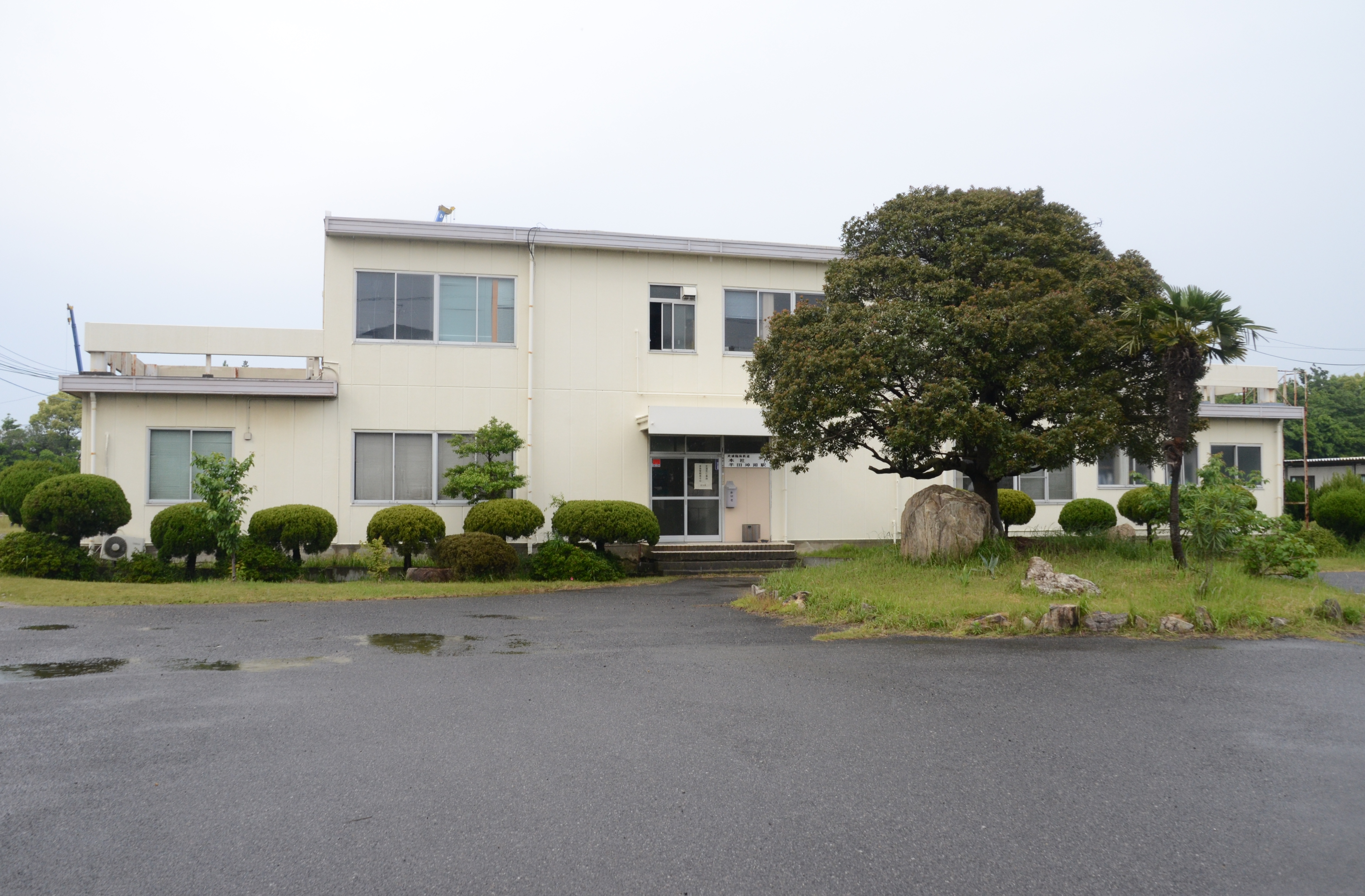 The administration building at Kinuura Rinkai Railway Handafutō freight terminal and depot